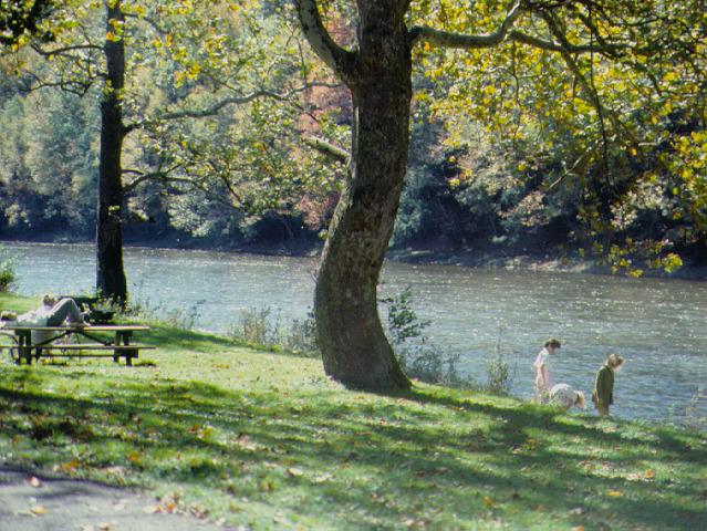 Oil Creek in Oil Creek State Park in Venango County, Pennsylvania, United States